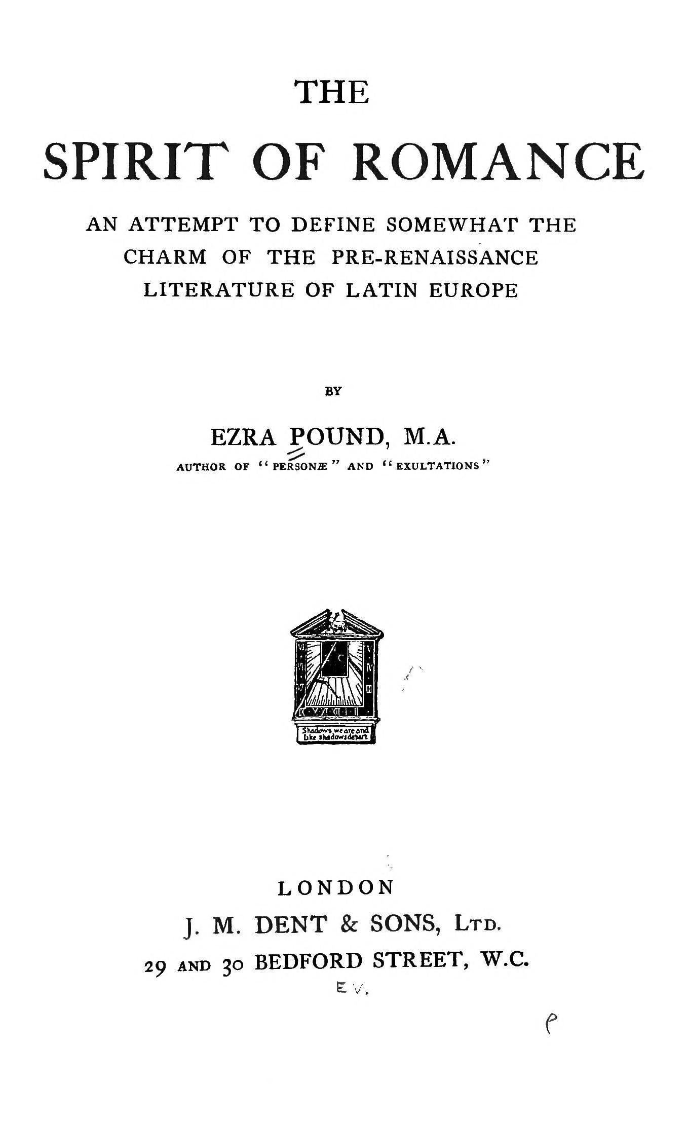 Cover page to Ezra Pound's The Spirit of Romance (1910)